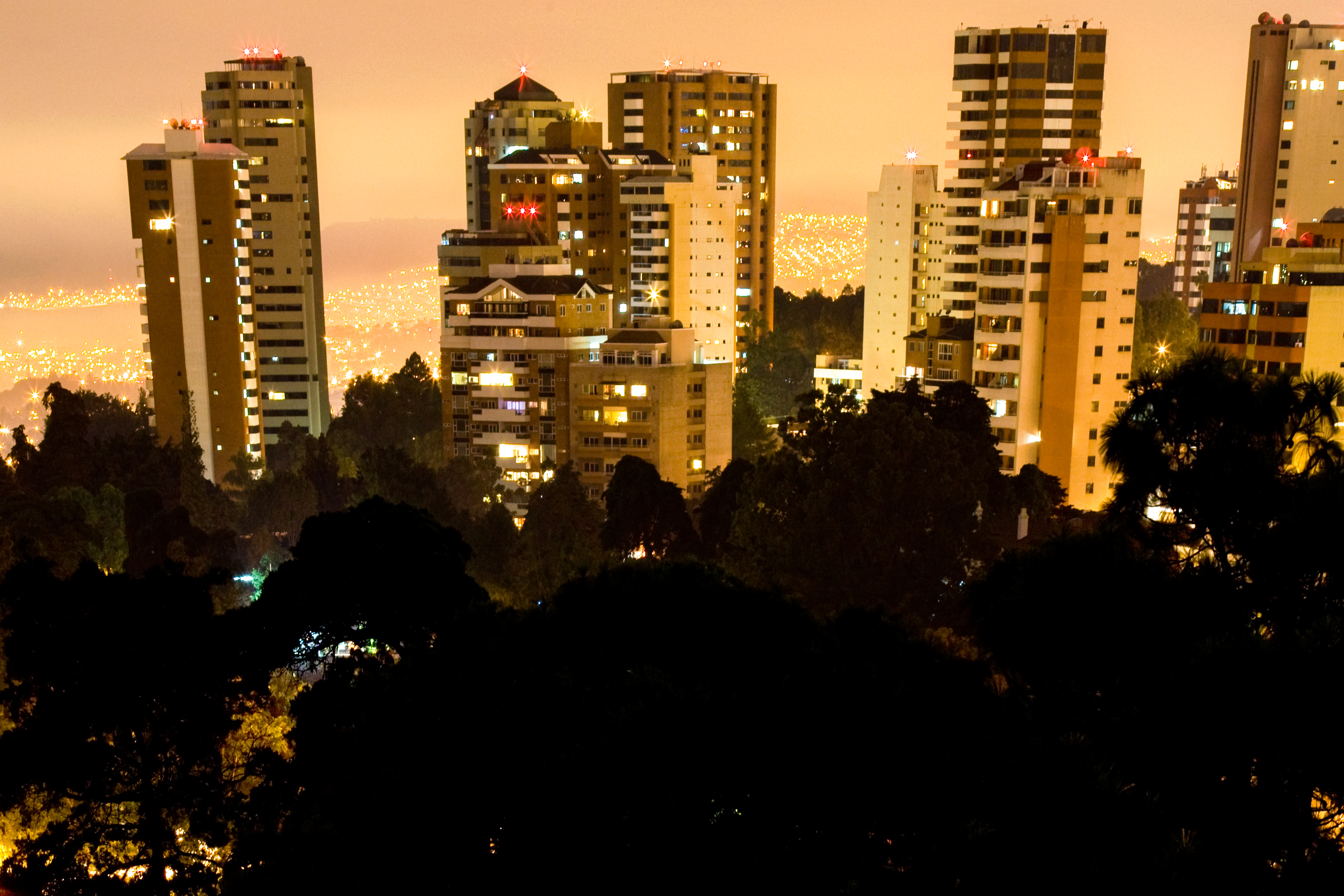 Cosmopolitan condominium buildings in Guatemala City